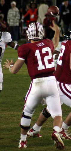 Andrew Luck throws the football against the California Golden Bears